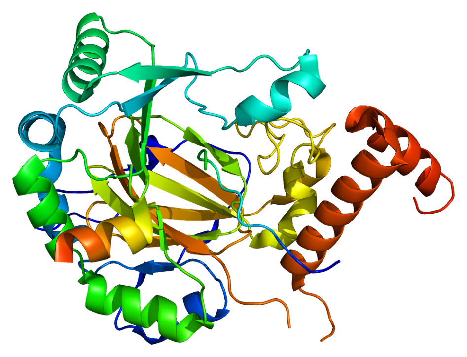 Structure of the HIF1A protein. Based on PyMOL rendering of PDB 1h2k.